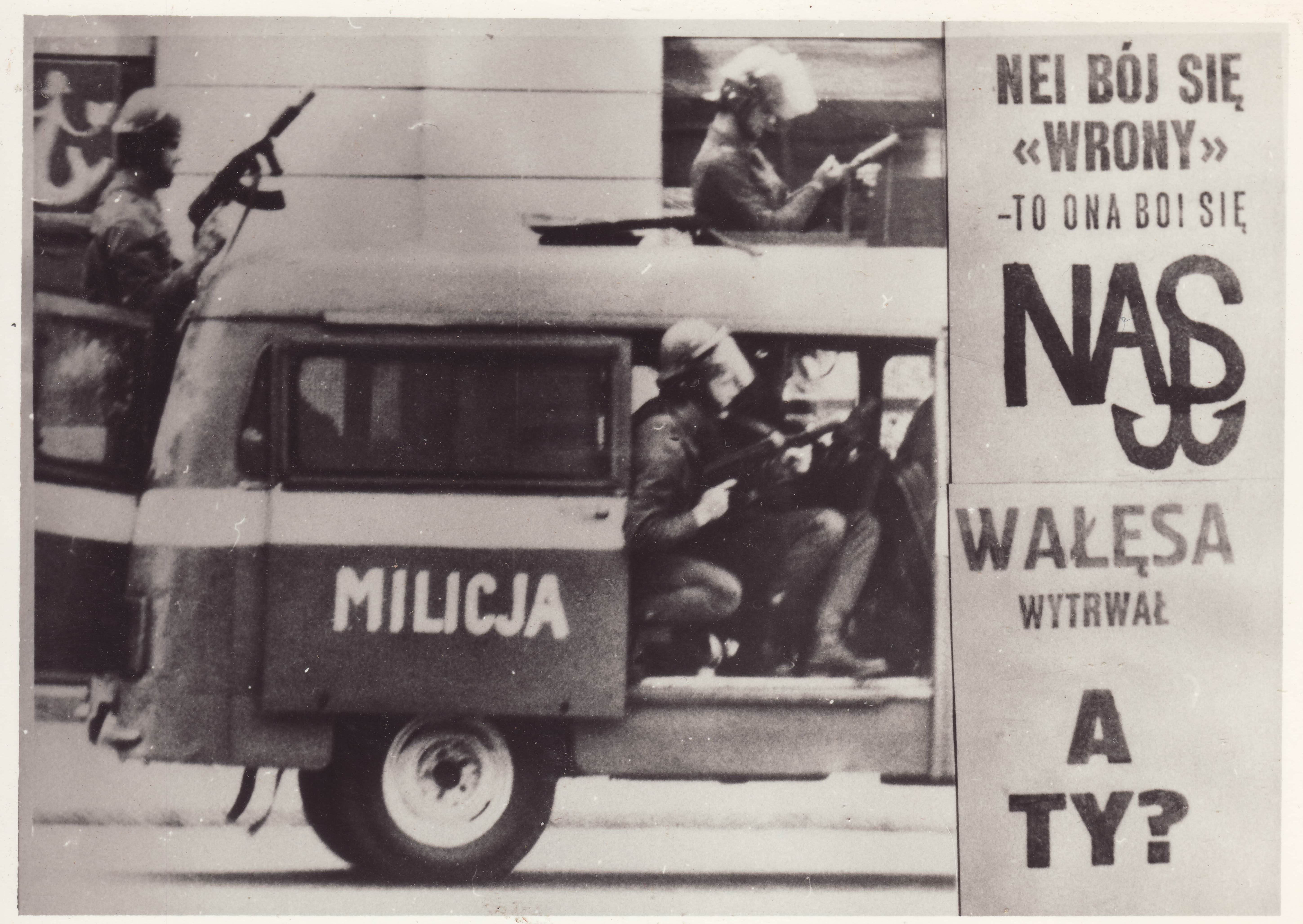 Set of photographs mostly documenting street demonstrations and police actions in Poland during the martial law of 1981-1983.